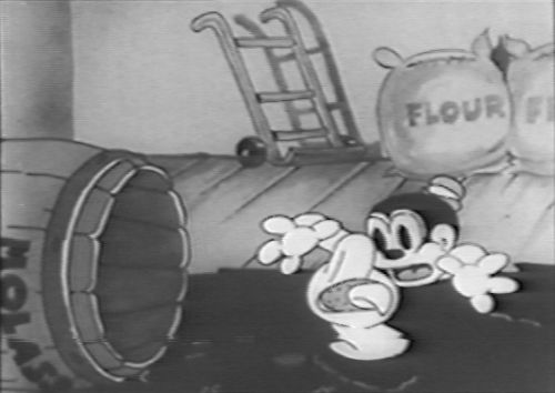 scene from public domain animated feature Bosko's Store